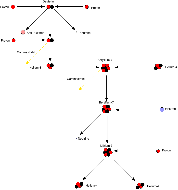 Proton-Proton-II chain reaction